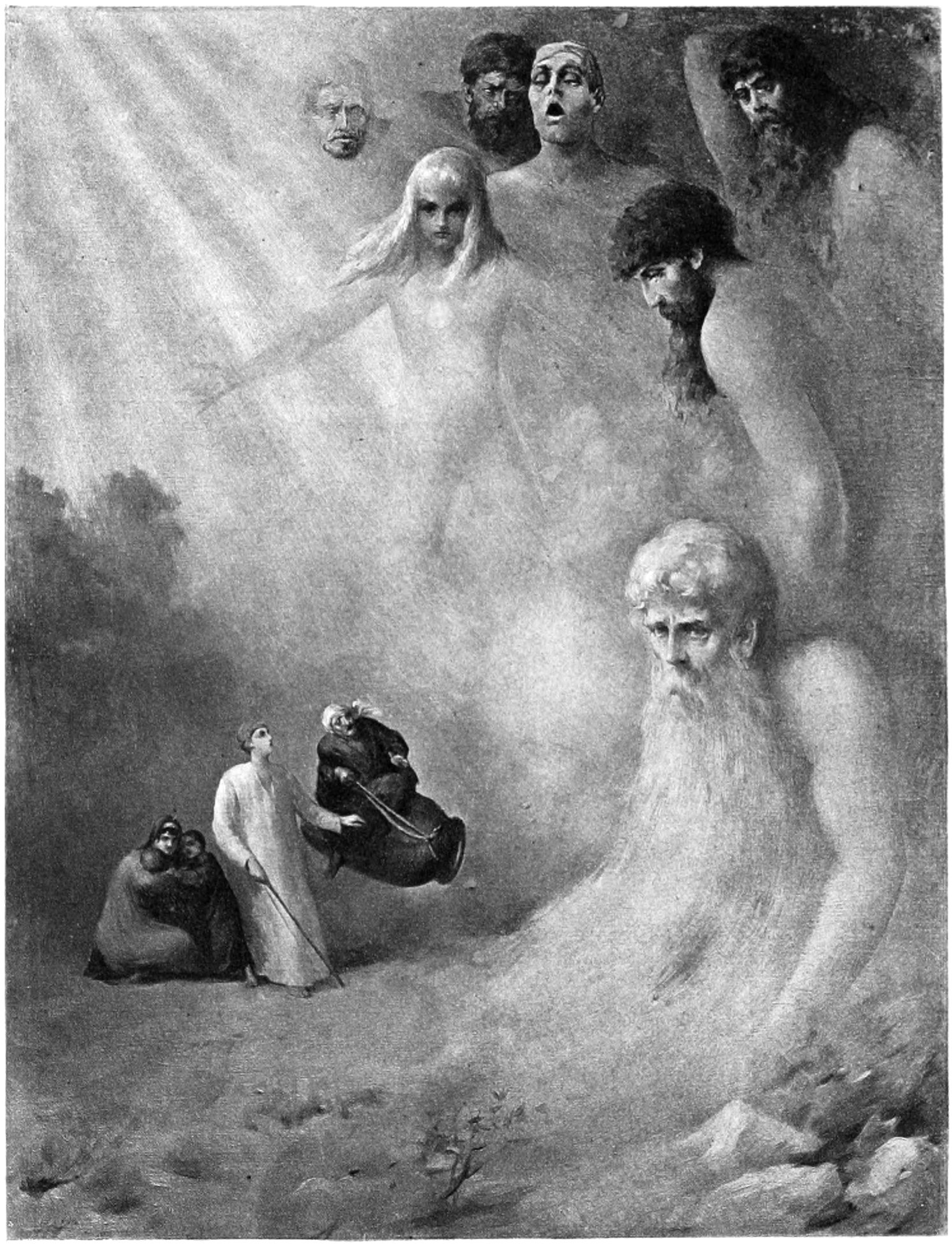 Hasan of Bassorah — Smiting the earth with the rod … the earth clave asunder and out came ten Ifrits, with their feet in the bowels of the earth and their heads in the clouds.